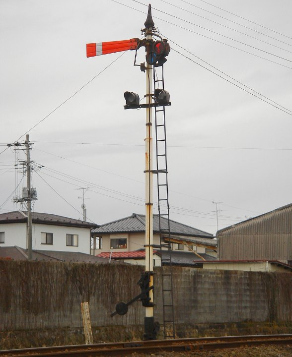 Semaphore signal at Wakayanagi station